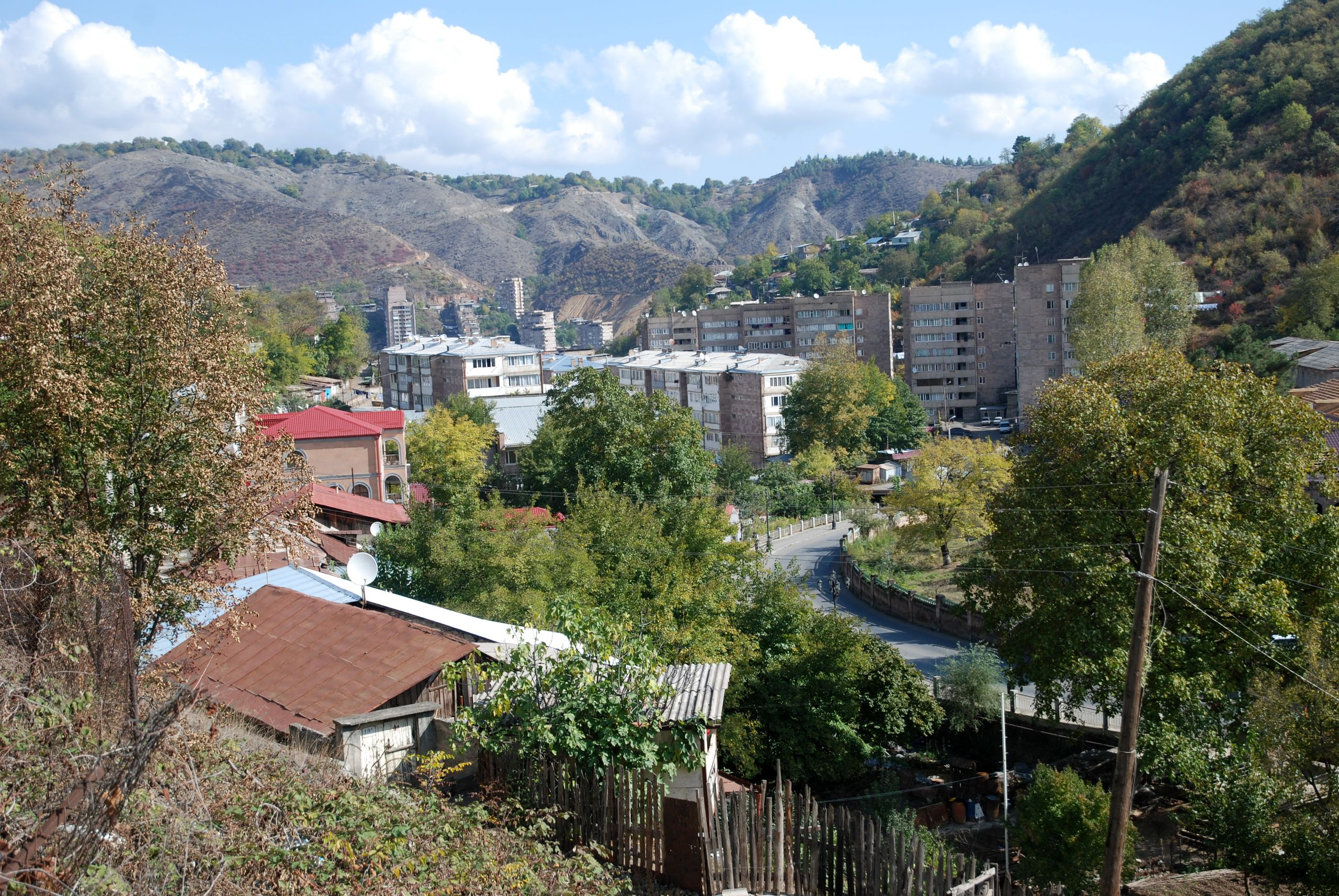 Kapan, vachagan valley